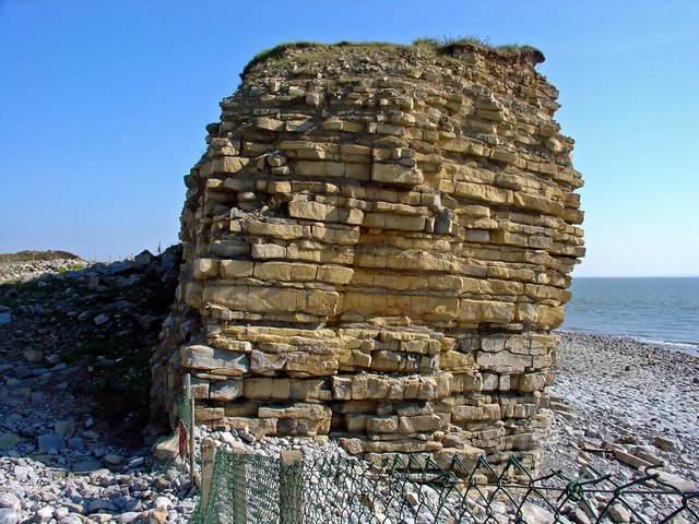 Blue Lias cliff, Rhoose To the north (left) the Blue Lias was quarried for cement manufacture. This gap in the remaining cliff seems to have broken through fairly recently. The cement plant (at ST066661) ceased operation in 1979.